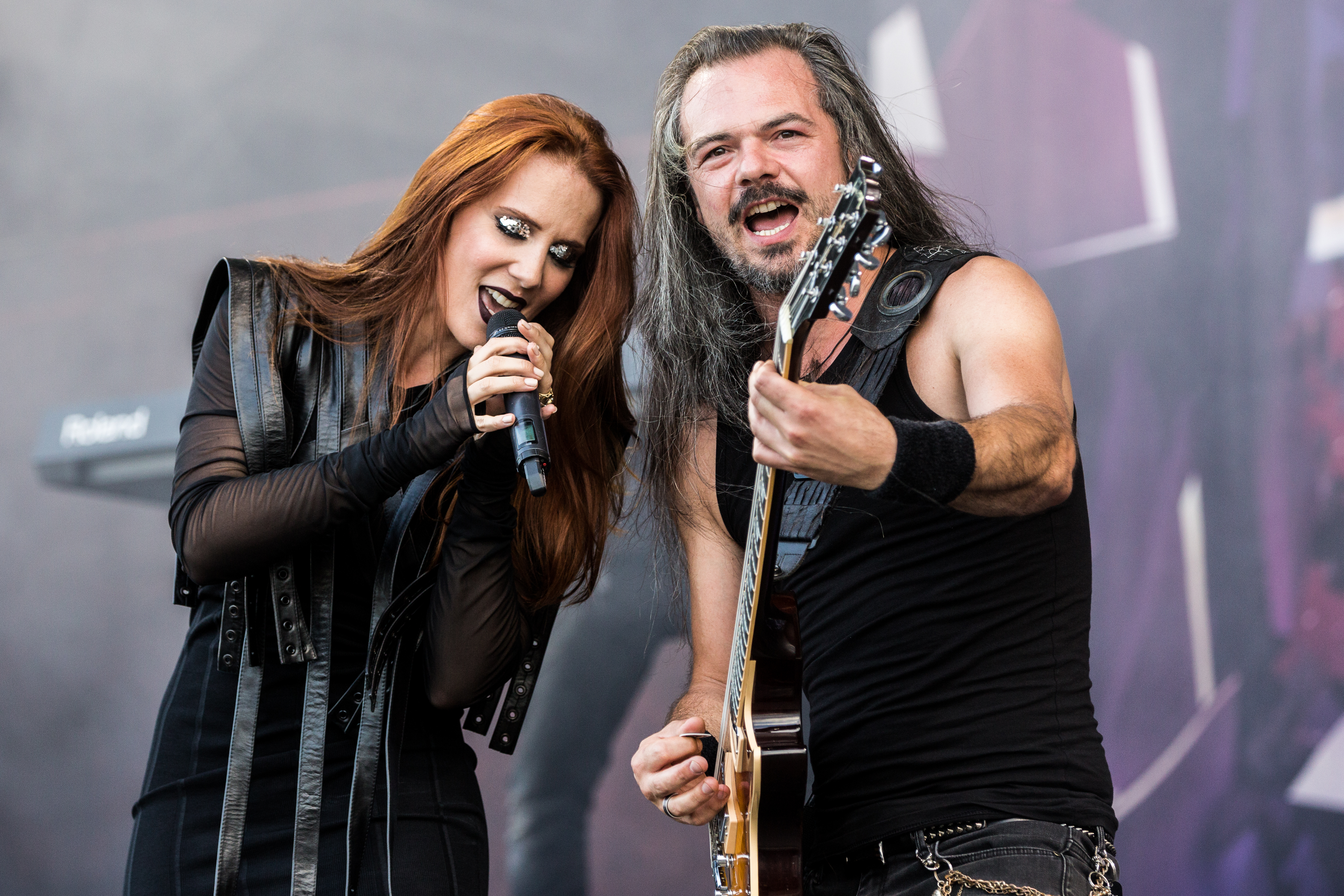 The Dutch symphonic metal band Epica at the Summer Breeze Open Air 2017 in Dinkelsbühl/Germany.